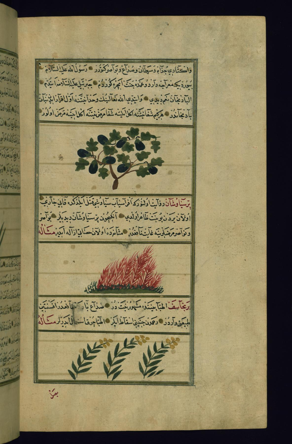 These illustrations from Walters manuscript W.659 depict an eggplant (badinjan), a plant called parsiyavushan, and dungwort (birinjasf).